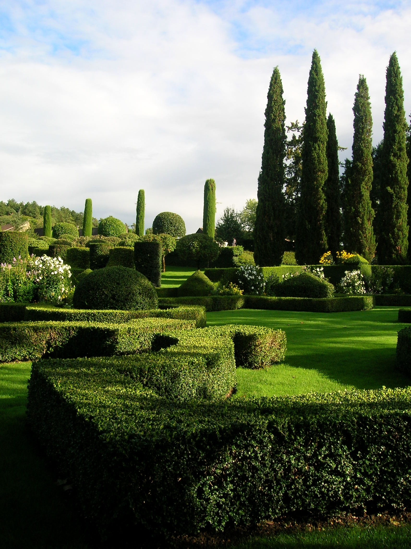 Gardens of Eyrignac Manor, in Dordogne (France).